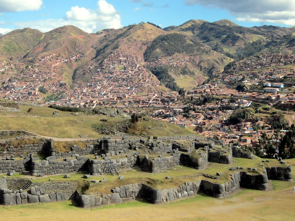 The Saqsaywman fortress on a hilltop overlooking Cuzco, Peru, was built between 1431 and 1508. Later the Spanish used it as a quary.